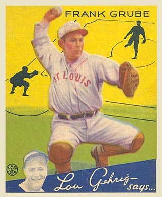 1934 Goudey baseball card of Frank Grube of the St. Louis Browns #64. PD-not-renewed.